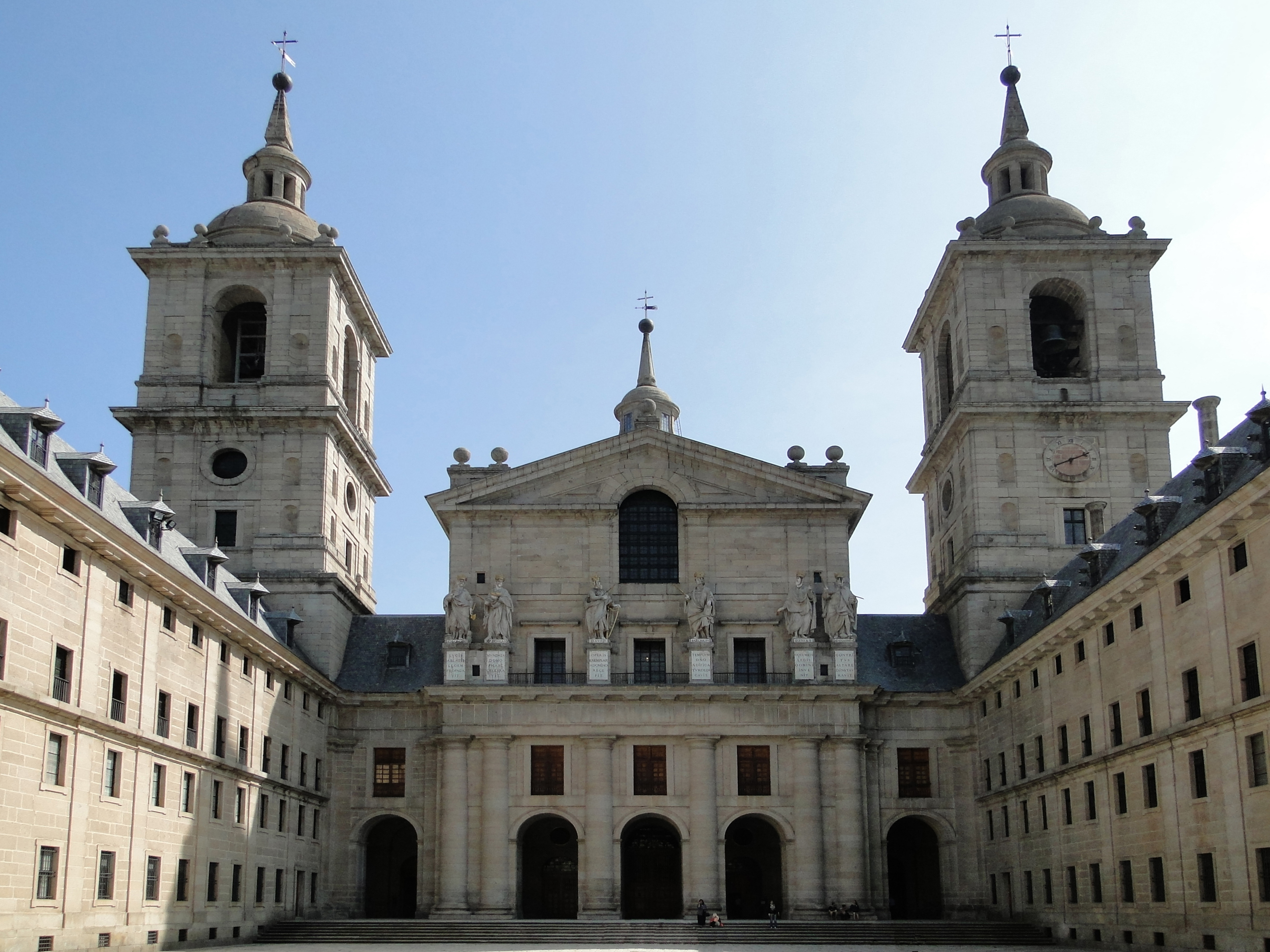 Basilica of the Monastery of El Escorial, San Lorenzo of El Escorial, Spain